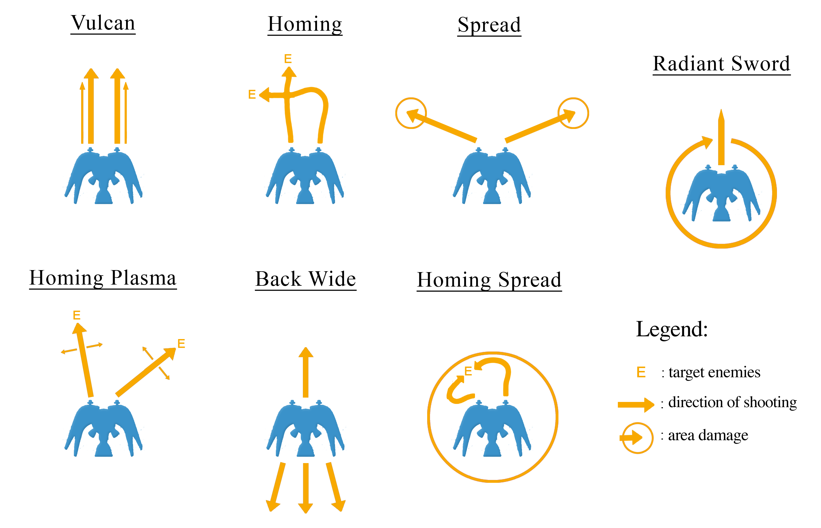 Illustration of the different weapons of the game Radiant Silvergun on Saturn